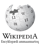 A logo for Wikipedia in the Greenlandic language.